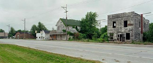 Avilla, Missouri downtown in 2000